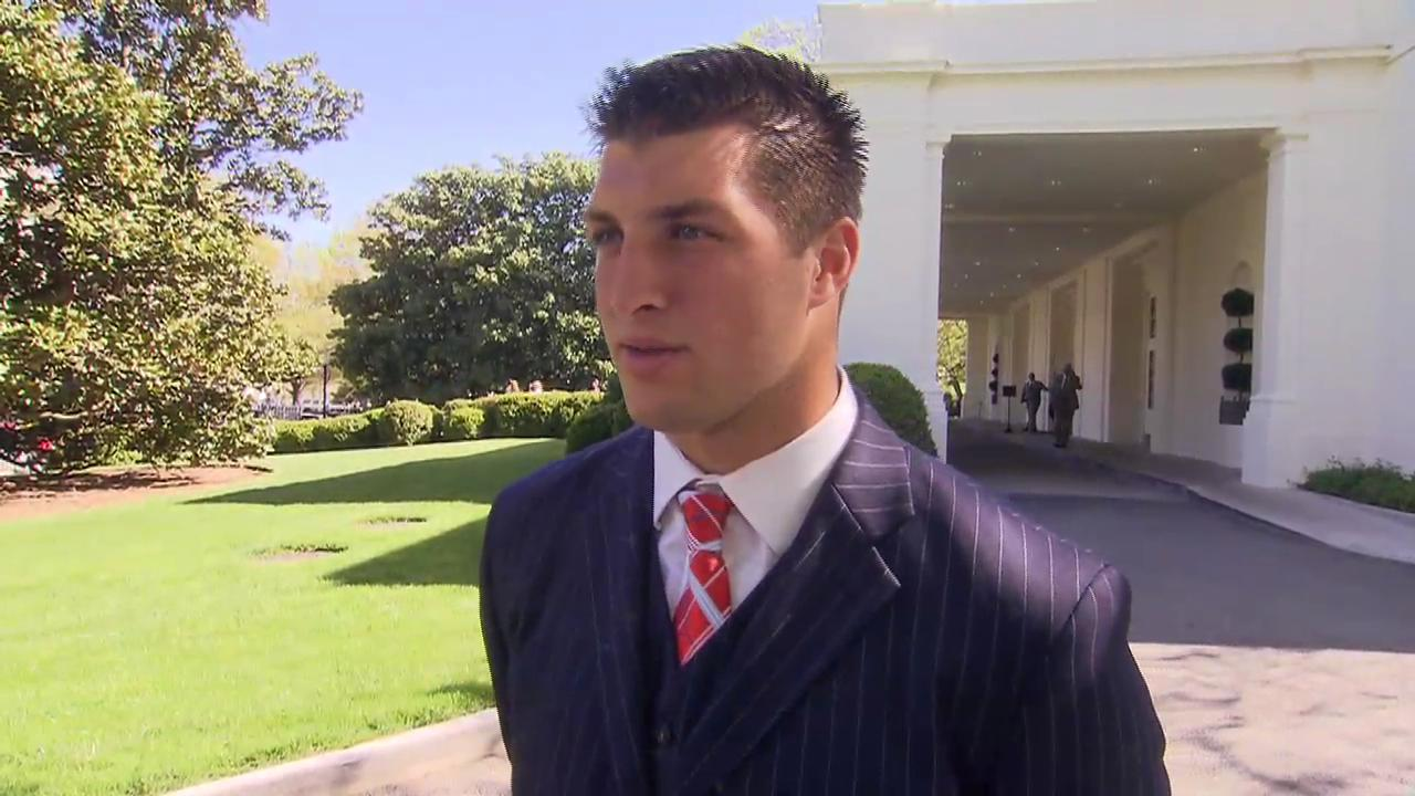 University of Florida quarterback Tim Tebow speaks about community service during the national championship team's visit to the White House and meeting with President Barack Obama. Screenshot of a White House video.